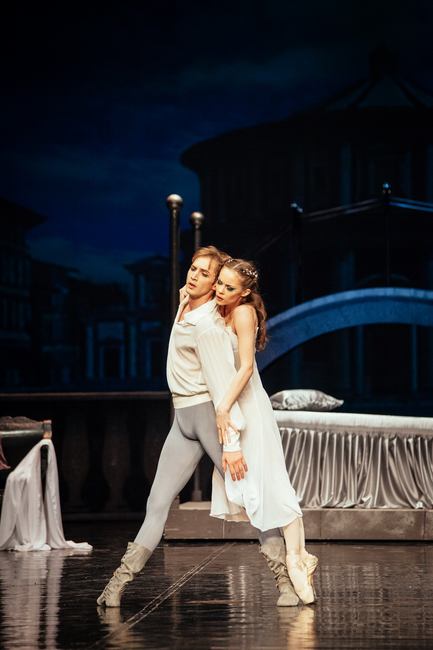 "Romeo and Juliet ", a ballet by Sergei Prokofiev based on William Shakespeare's play Romeo and Juliet; choreography and directing Konstantin Kostjukov; Ballet of the Serbian National Theatre, Novi Sad, 2013/14, Liviu Har, Ana Đurić Srpski (latinica): „Romeo i Julija” balet Sergeja Prokofijeva po istoimenom Šekspirovom komadu; Balet Srpskog Narodnog pozorišta, Novi Sad, 2013/14, Liviu Har, Ana Đurić Српски (ћирилица): Балет „Ромео и Јулија“ Сергеја Прокофијева по истоименом Шекспировом комаду; Балет Српског Народног позоришта, Нови Сад, 2013/14, Ливиу Хар, Ана Ђурић